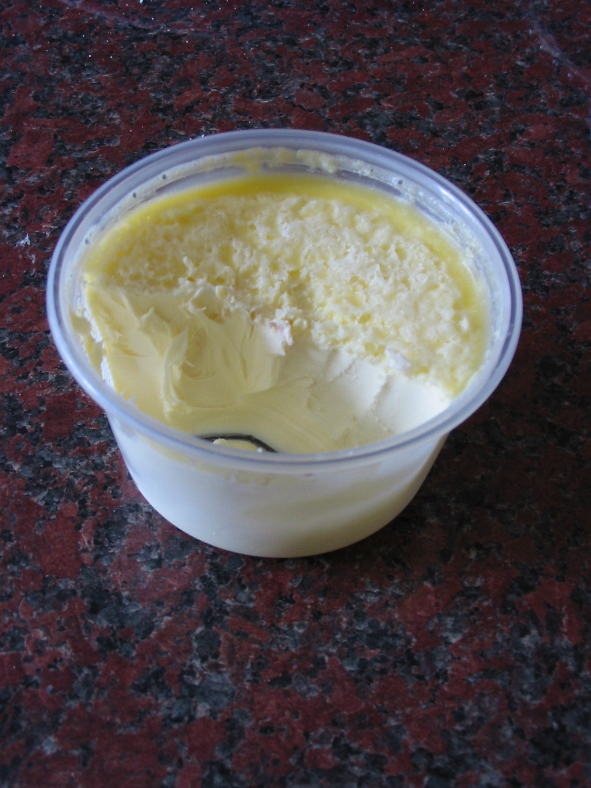 Clotted cream.